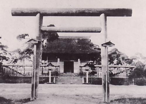 Heijo(Pyongyang) Shrine